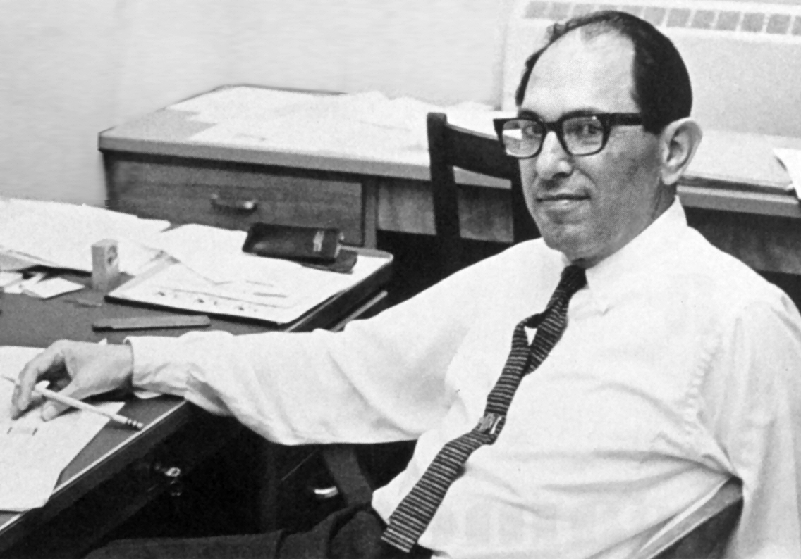 Original caption: "Jerome Namias, ESSA's top forecaster."